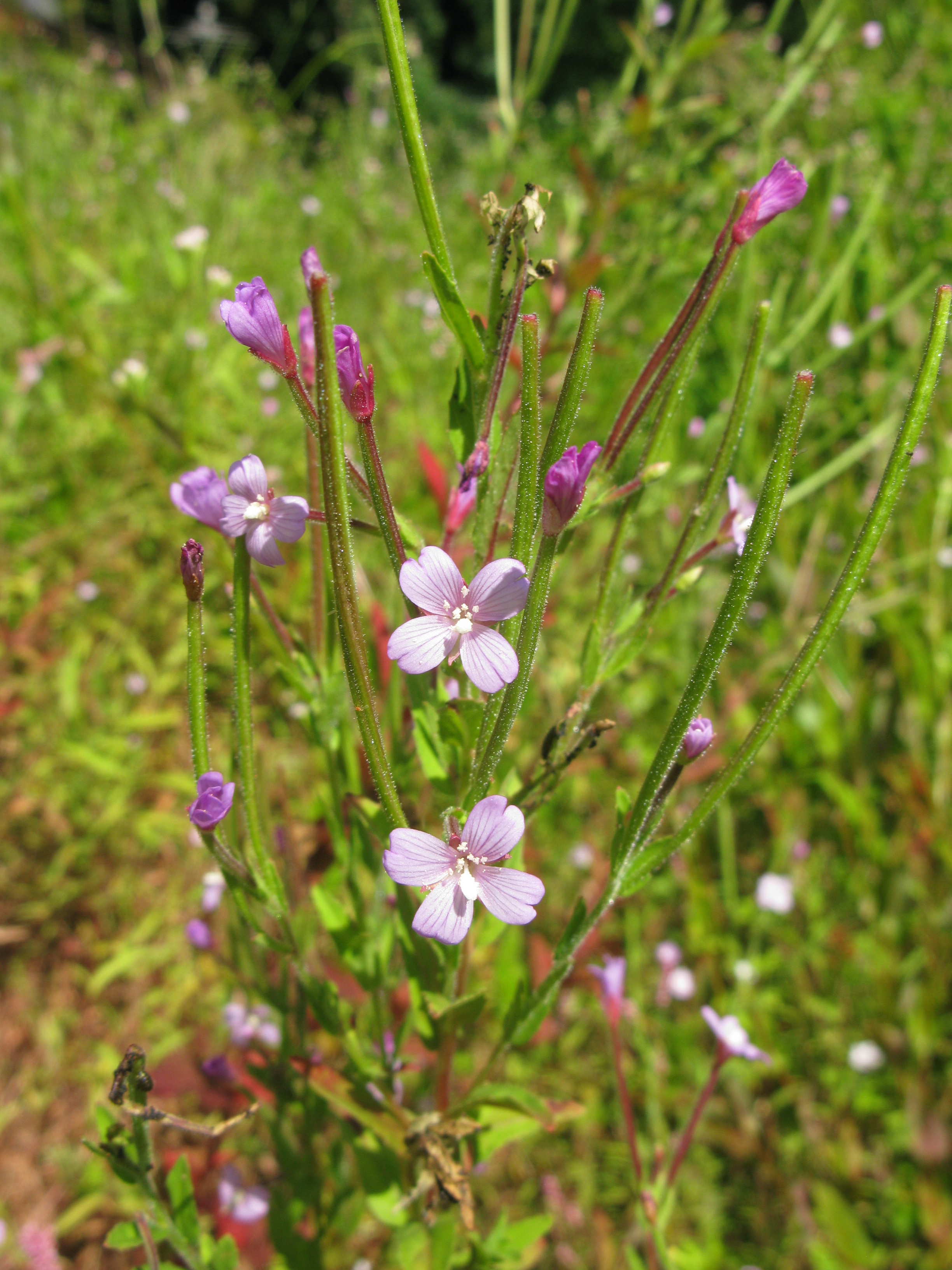 Epilobium pyrricholophum, Aizu area, Fukushima pref., Japan